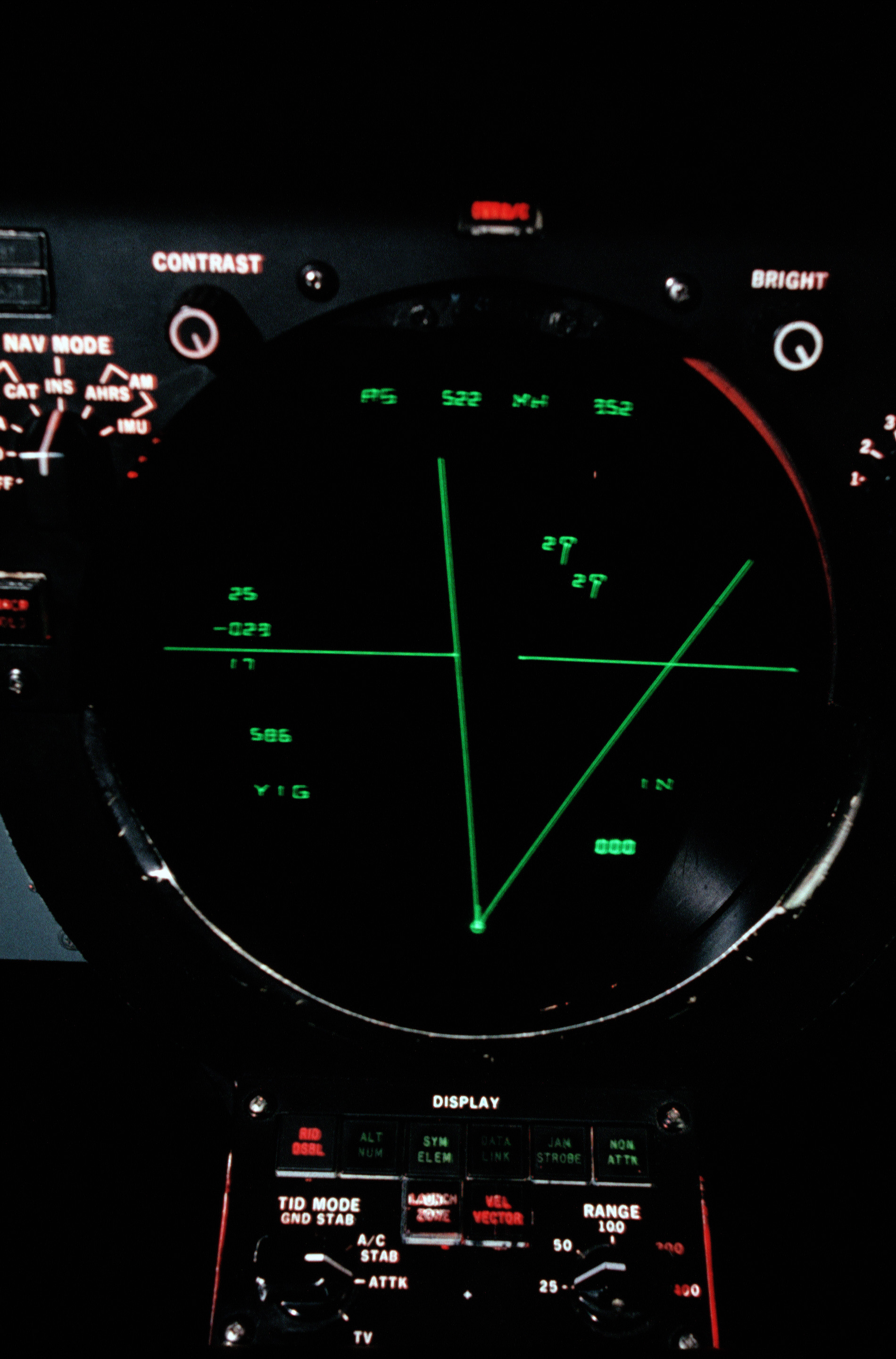 A close-up view of a display in the cockpit of an F-14A Tomcat aircraft.